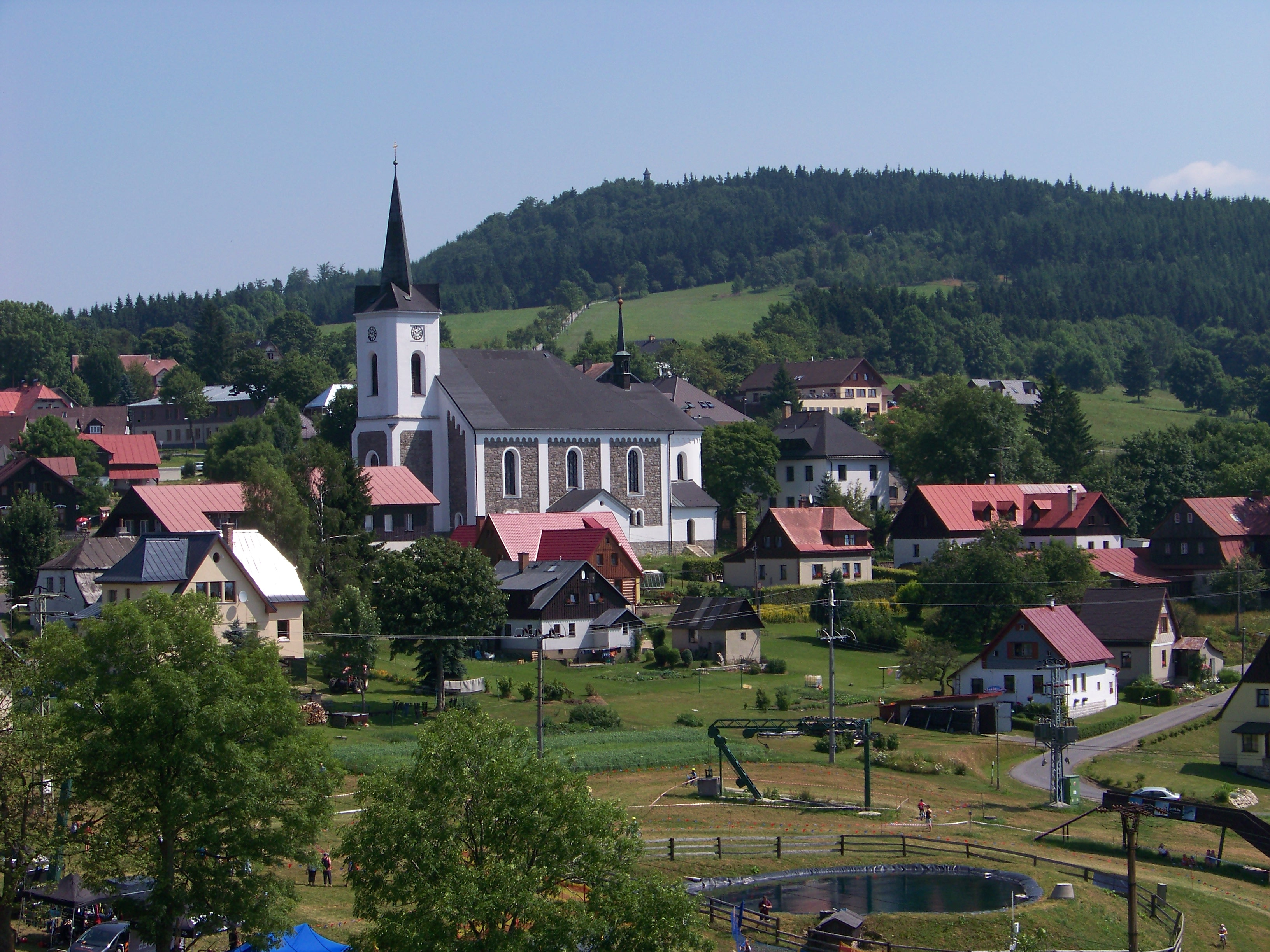 Kořenov-Příchovice, Jablonec nad Nisou District, Liberec Region, the Czech Republic. Seen from Jára Cimrman tower. - OpenStreetMap(Info)